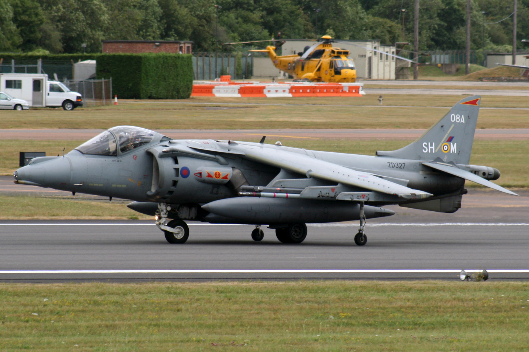 BAE Harrier GR9 UK Air Force ZD327 / 08A C/N 512115/P8